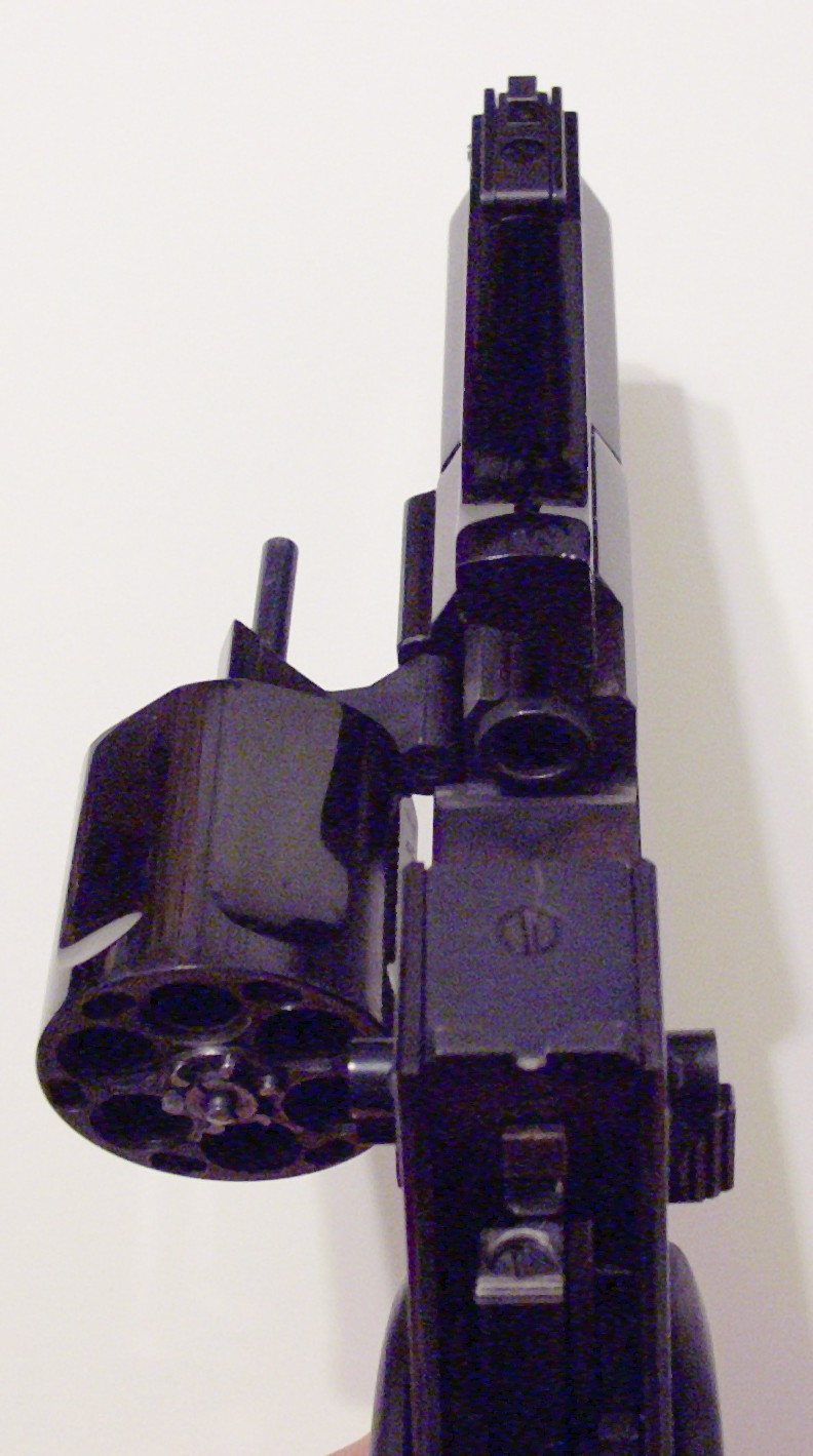 Rear view of a Mateba Unica Model 6. Rear and front sights shown. Cylinder is open to show alignment of the barrel with lowest chamber of the cylinder.